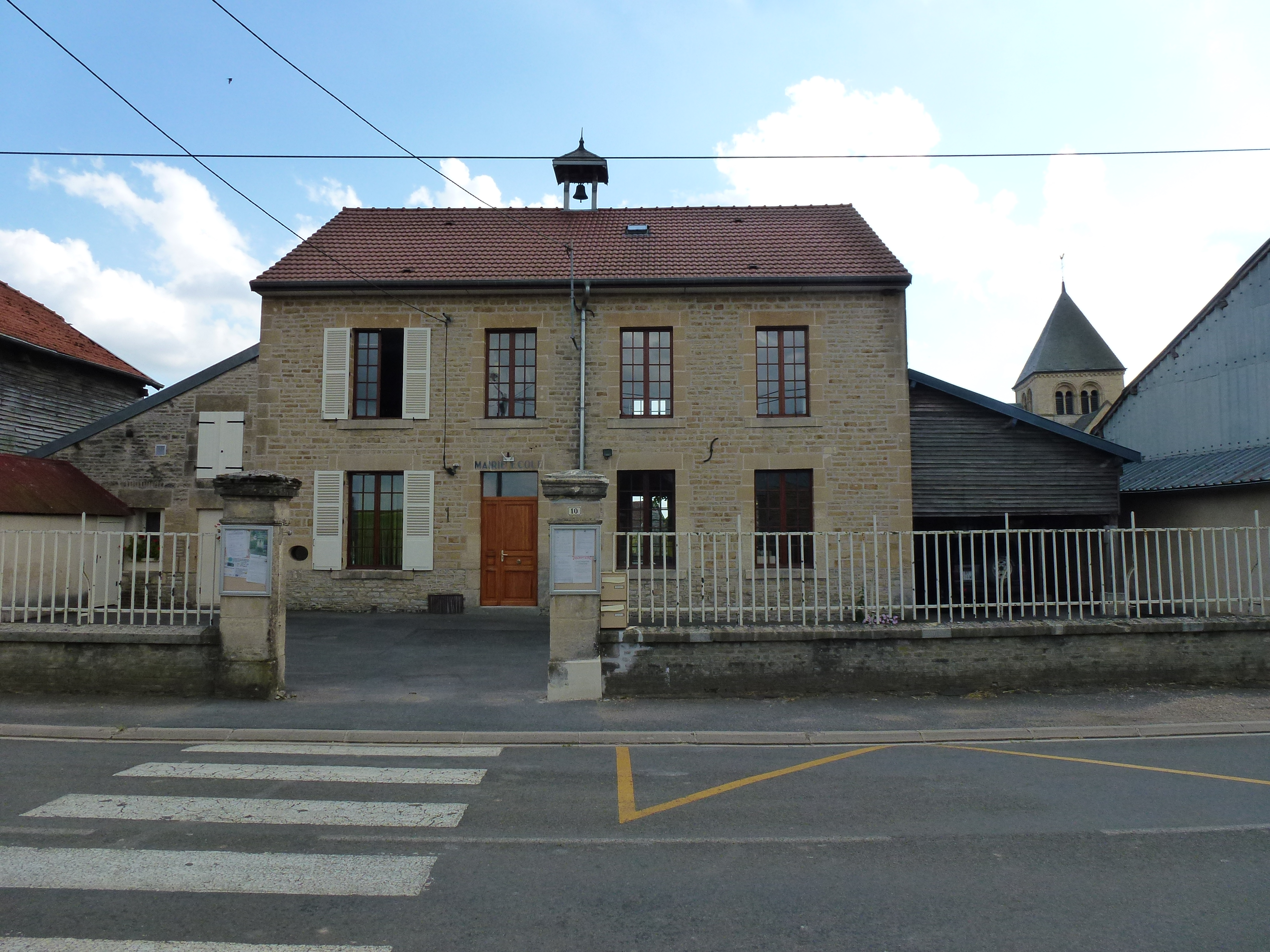 Alland'Huy-et-Sausseuil (Ardennes) mairie - école